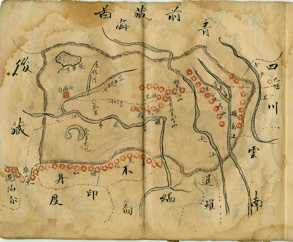 'Front of Tibet' (侯藏, or Ü). Map Painted by Wu Run-De in the 'Ding Wei' year after 1901, which would have been 1907. Political regions shown clockwise from top are Qinghai (青海), Sichuan (四川), Yunnan (雲南), Xianluo (暹罗, Thailand), Miandian (Burma), Budan (不丹, Bhutan), Yindu (印度, India), Nebo'er (尼泊尔, Nepal), and so-called 'Houzang' (侯藏, 'back of Tibet', or Tsang).